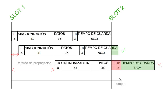 TDMA: example of different arrivals to the BS